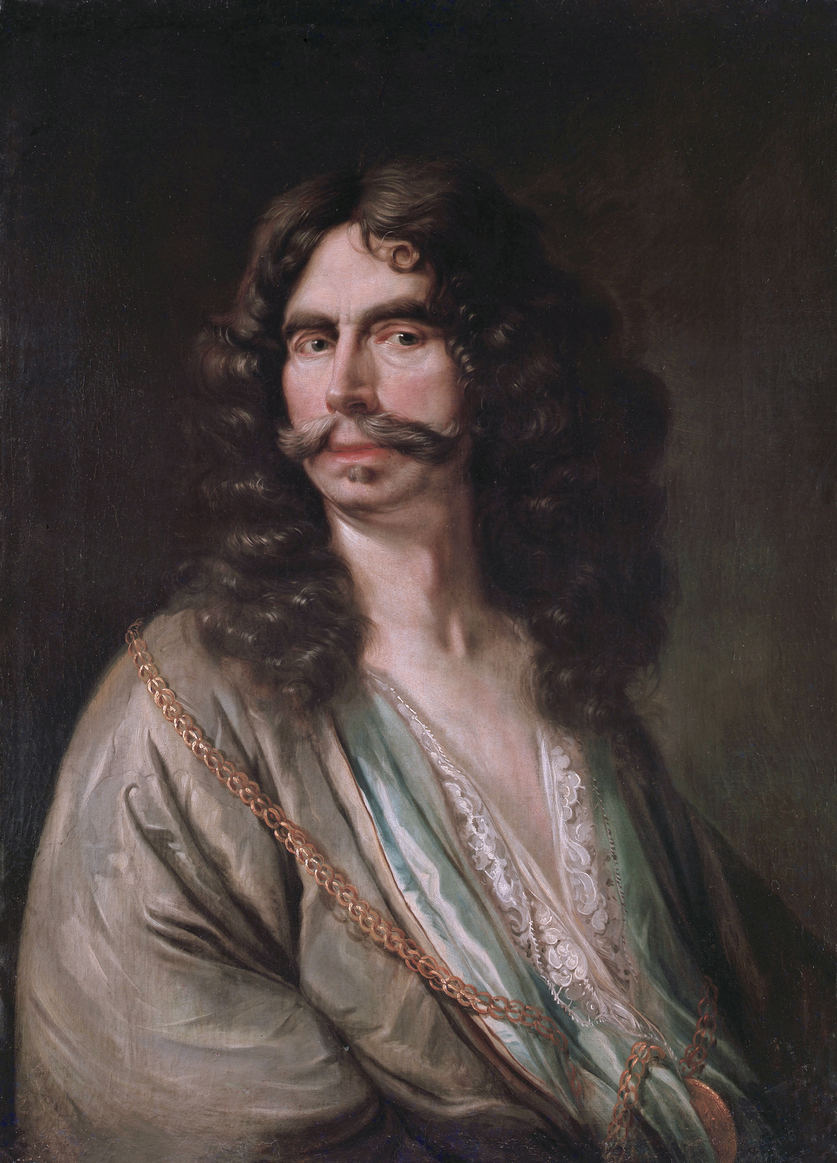 Self portrait oil on canvas 83 x 60 cm 1682